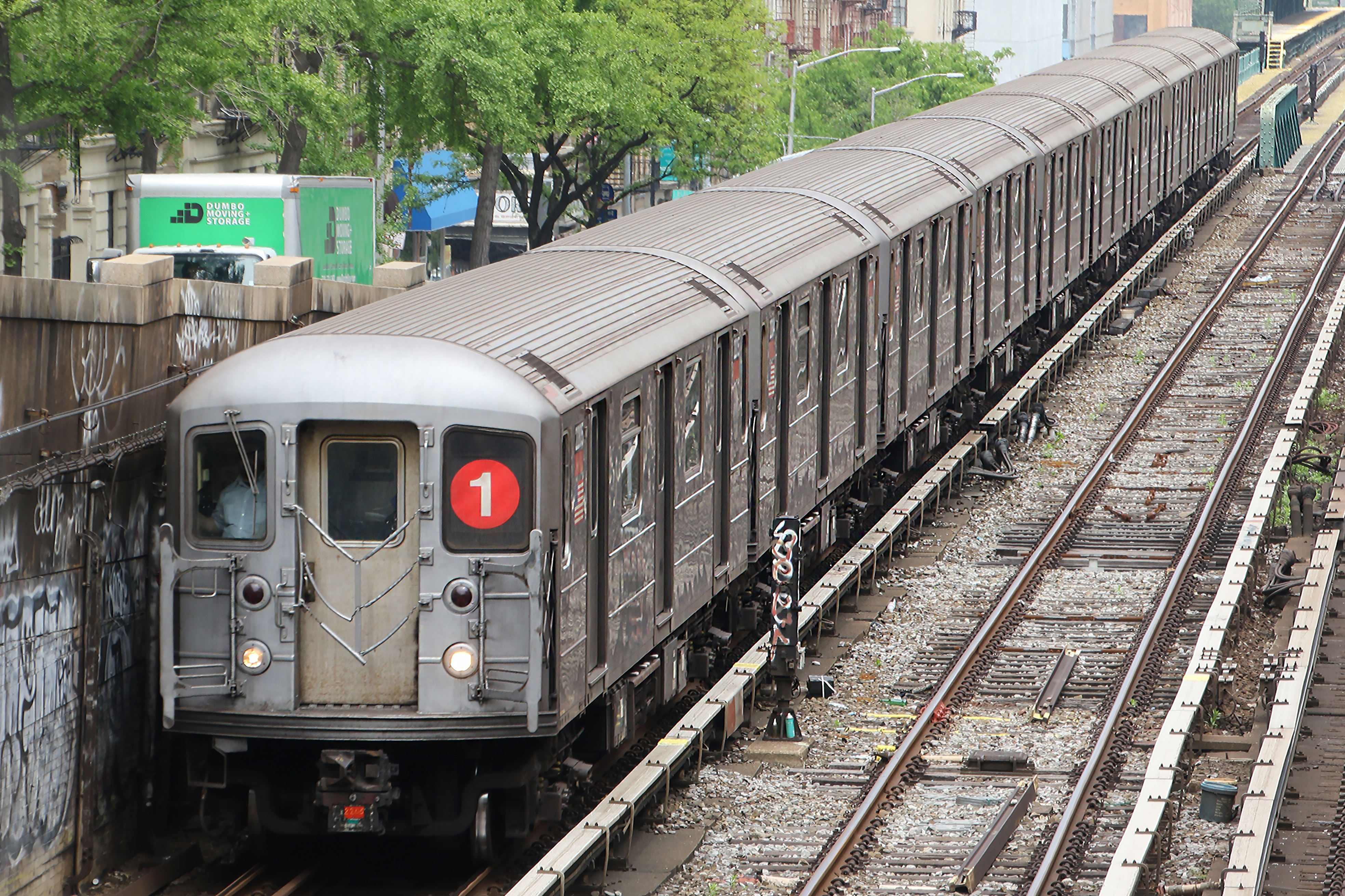 South Ferry-bound MTA NYC Subway 1 train of Bombardier Transportation R62A cars leaving 125th St.